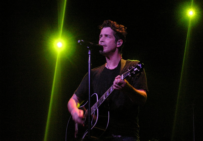 Chris Cornell performing live in Melkweg in Amsterdam, the Netherlands.